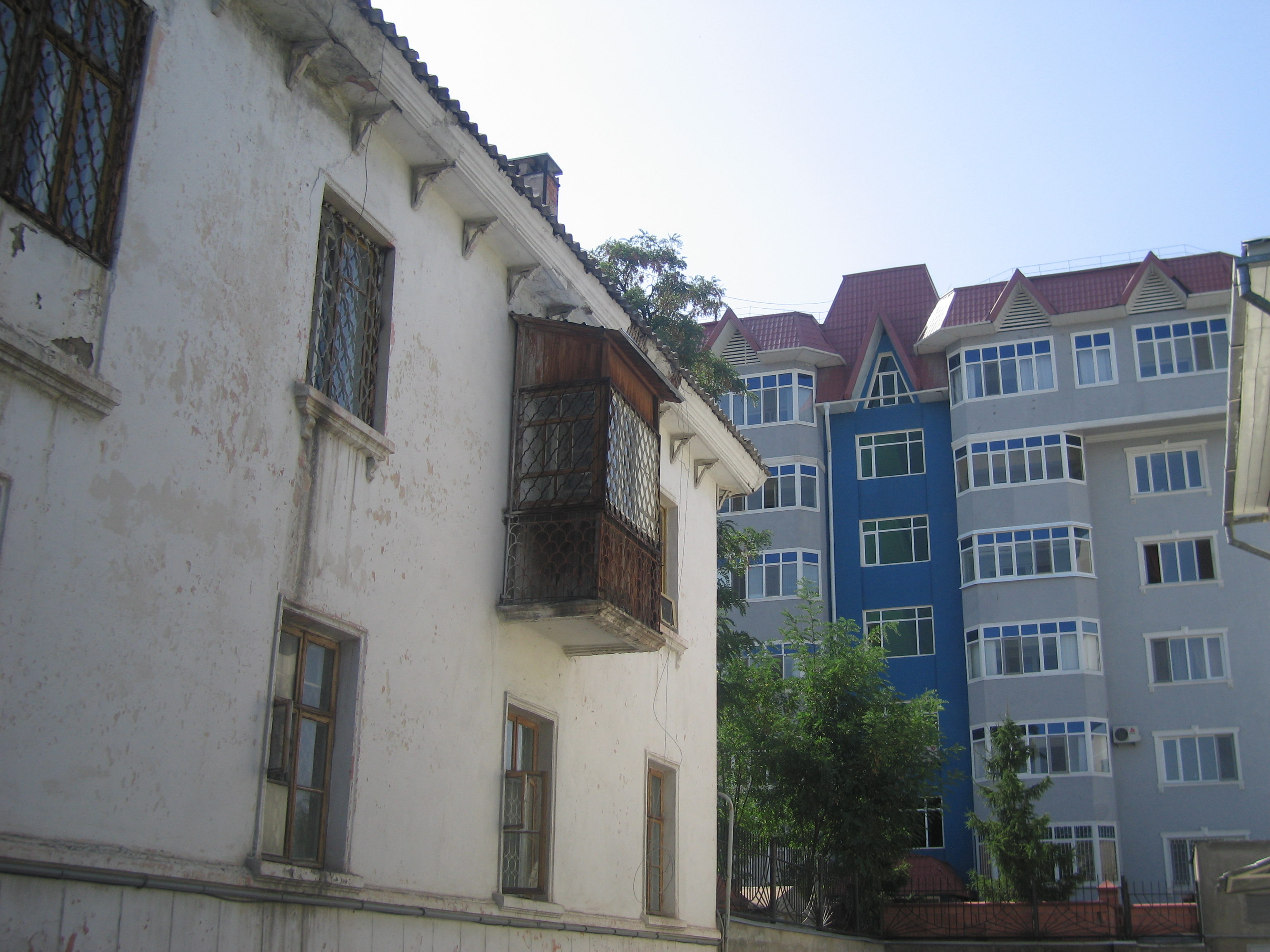 Old and new buildings in Bishkek, Kyrgyzstan.